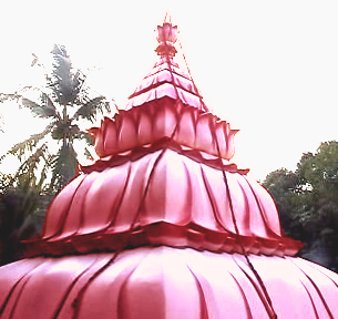 I took this Photo graph.